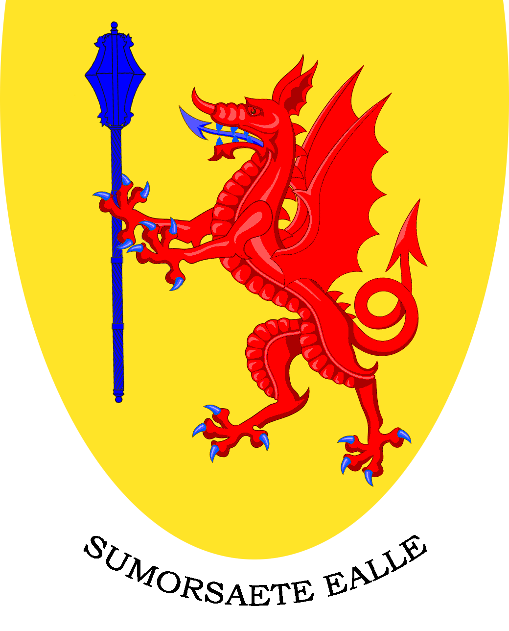 Shield:Or, a dragon rampant gules holding a mace erect azure Motto: SUMORSAETE EALLE (All the people of Somerset)